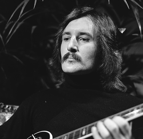 Jan Akkerman in AVRO's TopPop (Dutch television show) in 1974